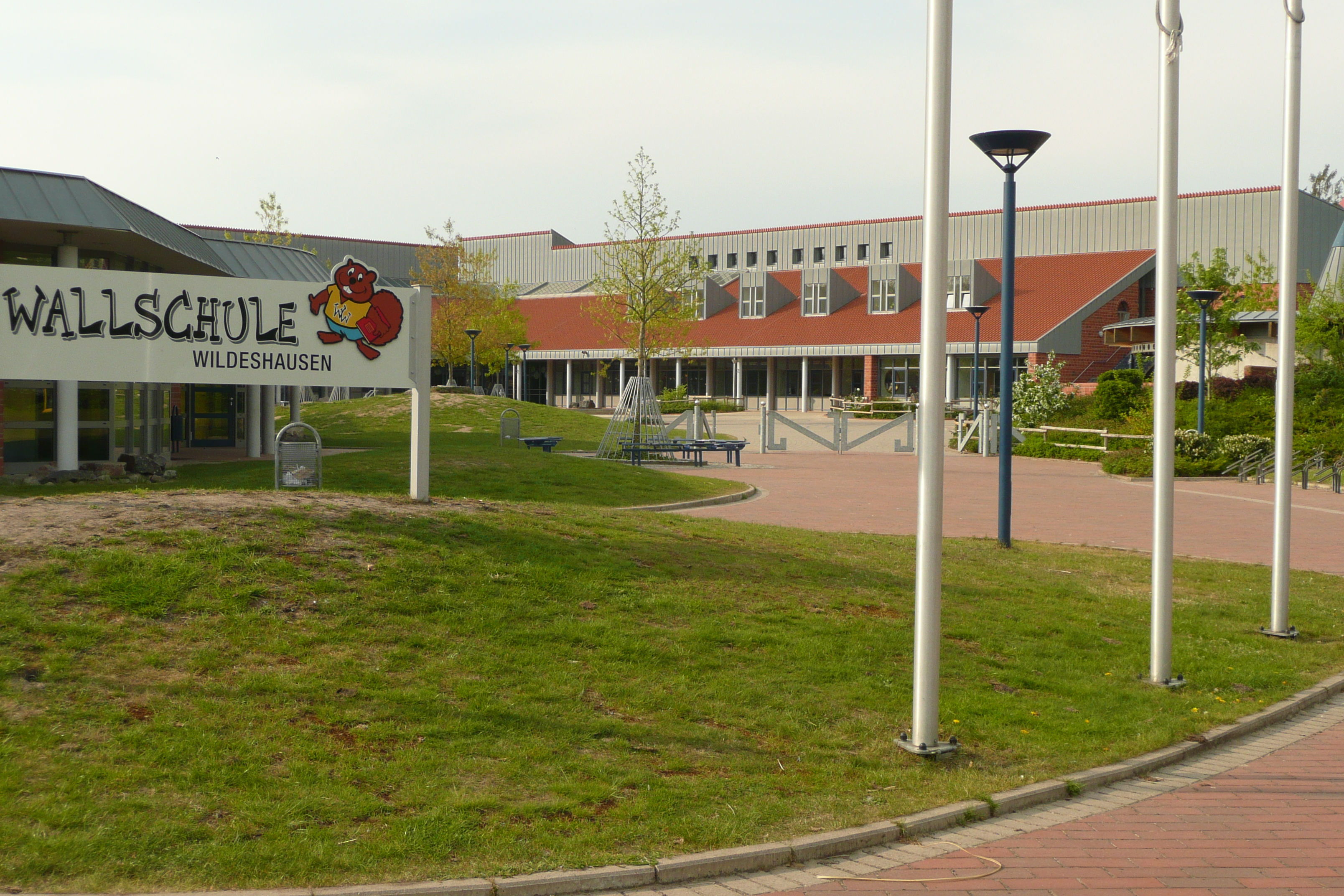 Elementary school "Wallschule" in Wildeshausen.